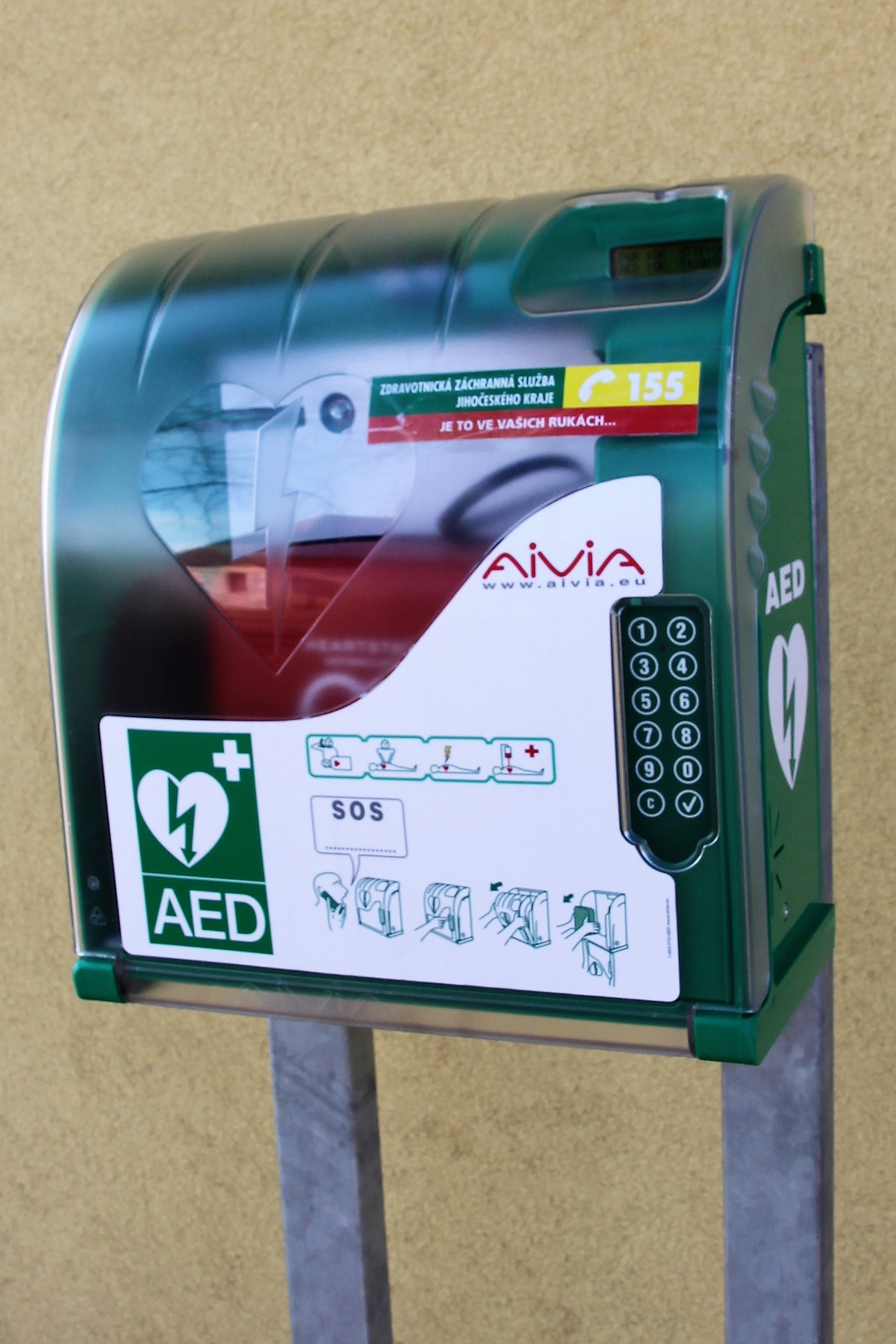 Automated external defibrillator located at the fire station in Rudolfov, South Bohemian Region, Czechia.